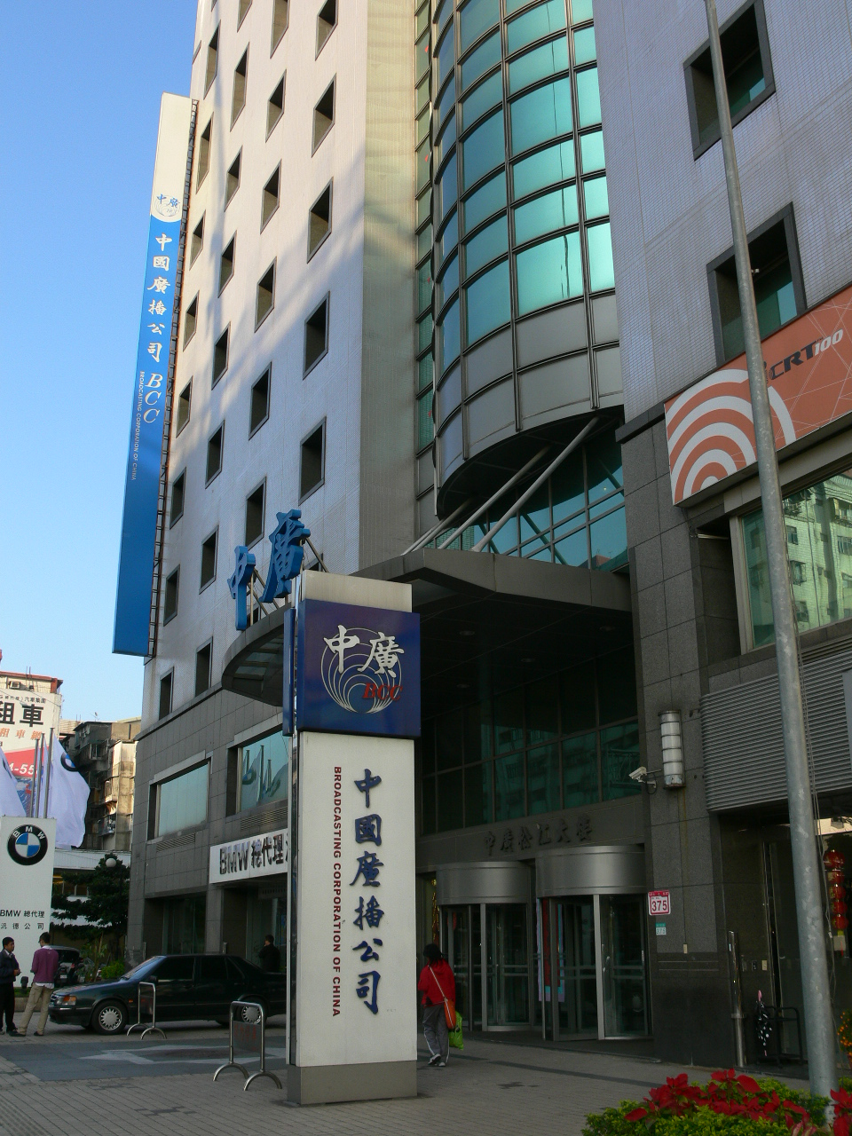 BCC Songjiang Building, the headquarter of Broadcasting Corporation of China (BCC). Taipei, Taiwan.